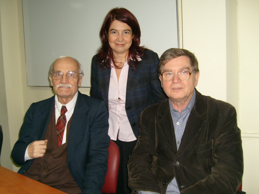 Polish chess arbiters: Agnieszka Brustman, Zbigniew Czajka (left) and Ulrich Jahr, Cracow 2008.